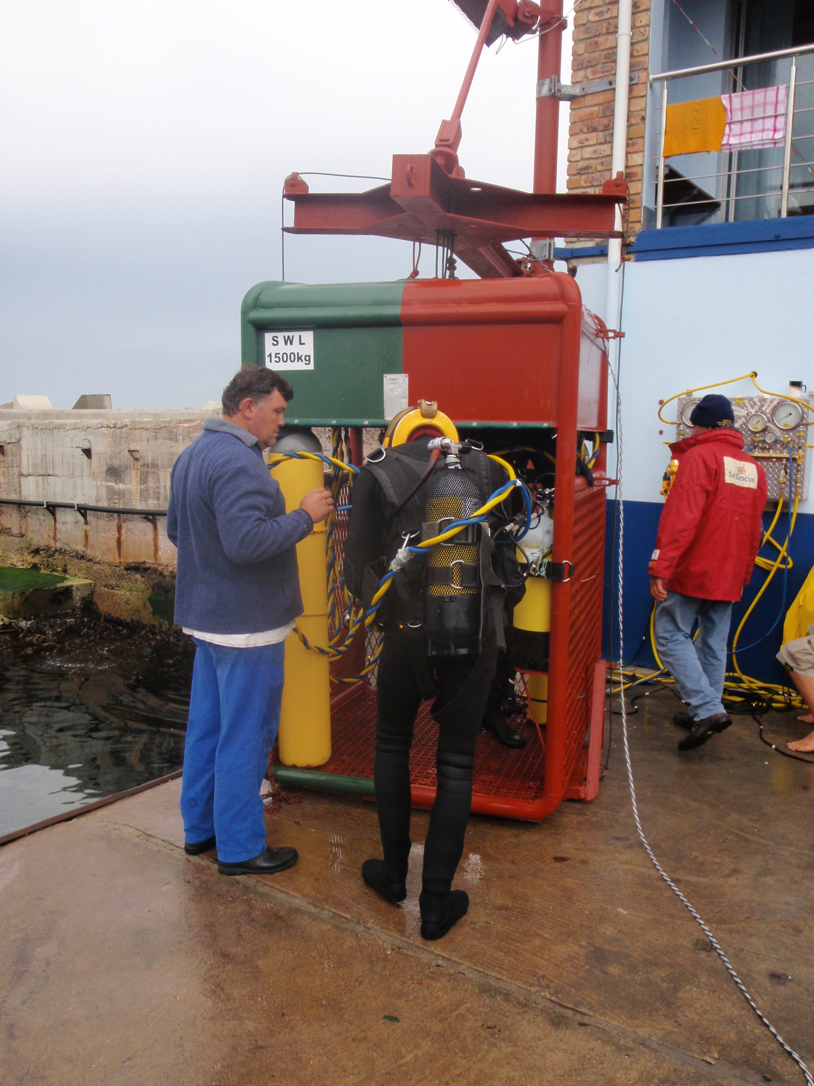 BS Divers class II training with wet bell in Hermanus